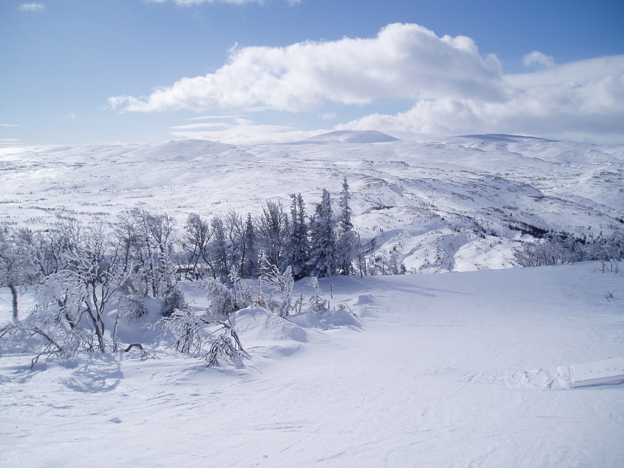 Photo from the top of Storlien ski area